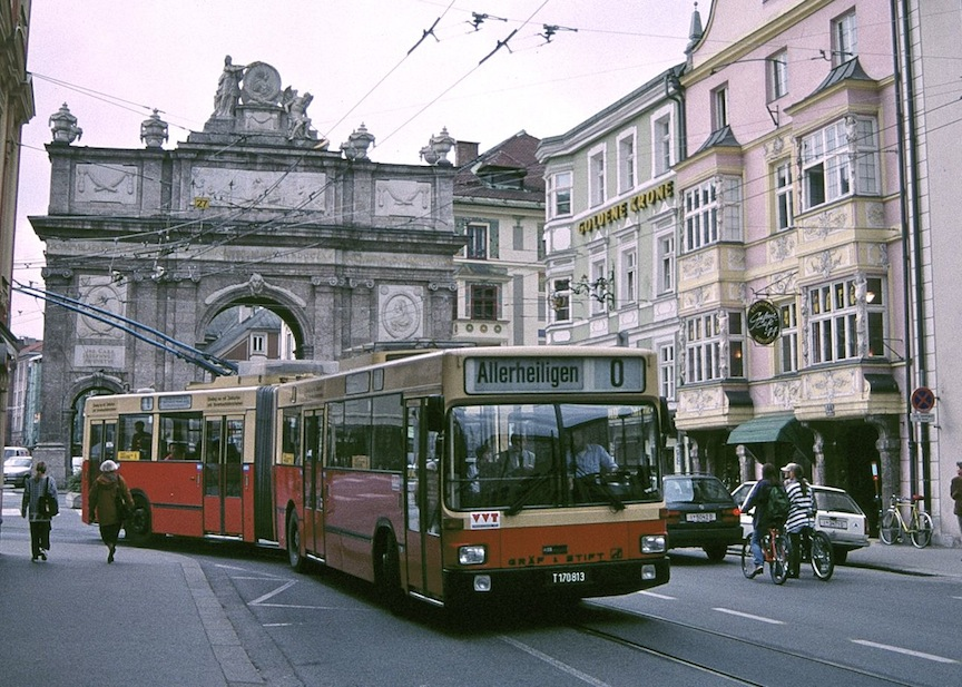 Innsbruck trolleybus 813 turning from Salurner Strasse onto Maria-Theresien-Strasse, with the Triumphpforte (north façade) in the background. Number 813 was built by Gräf & Stift (MAN's Austrian subsidiary) in 1988.